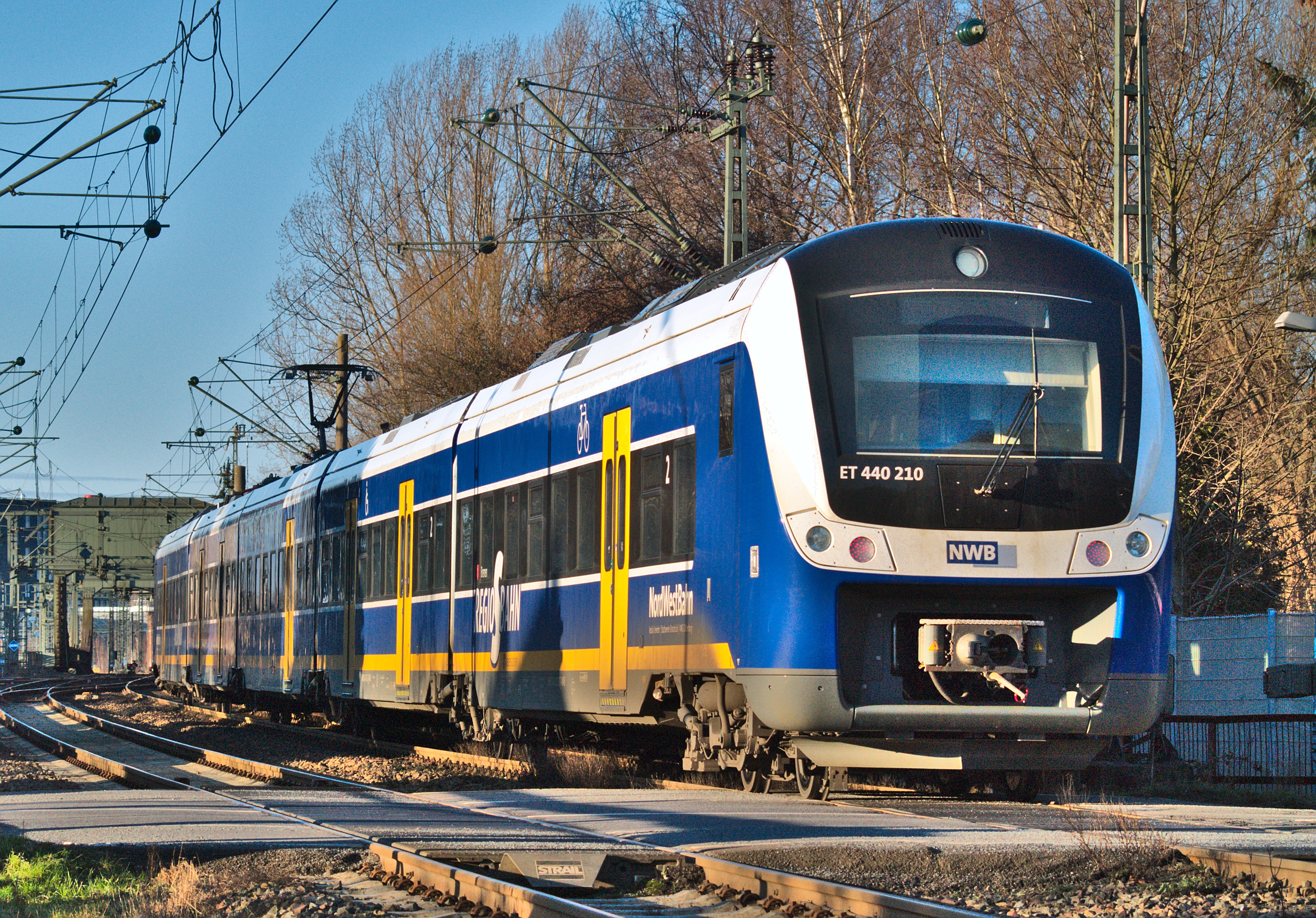 ET 440 210, an Alstom Coradia operated by NordWestBahn on route RS3 (Bremen Hbf → Bad Zwischenahn) of the Regio-S-Bahn Bremen (Bremen Area Rapid Transit), is approaching the bascule bridge over the Hunte river in Oldenburg.